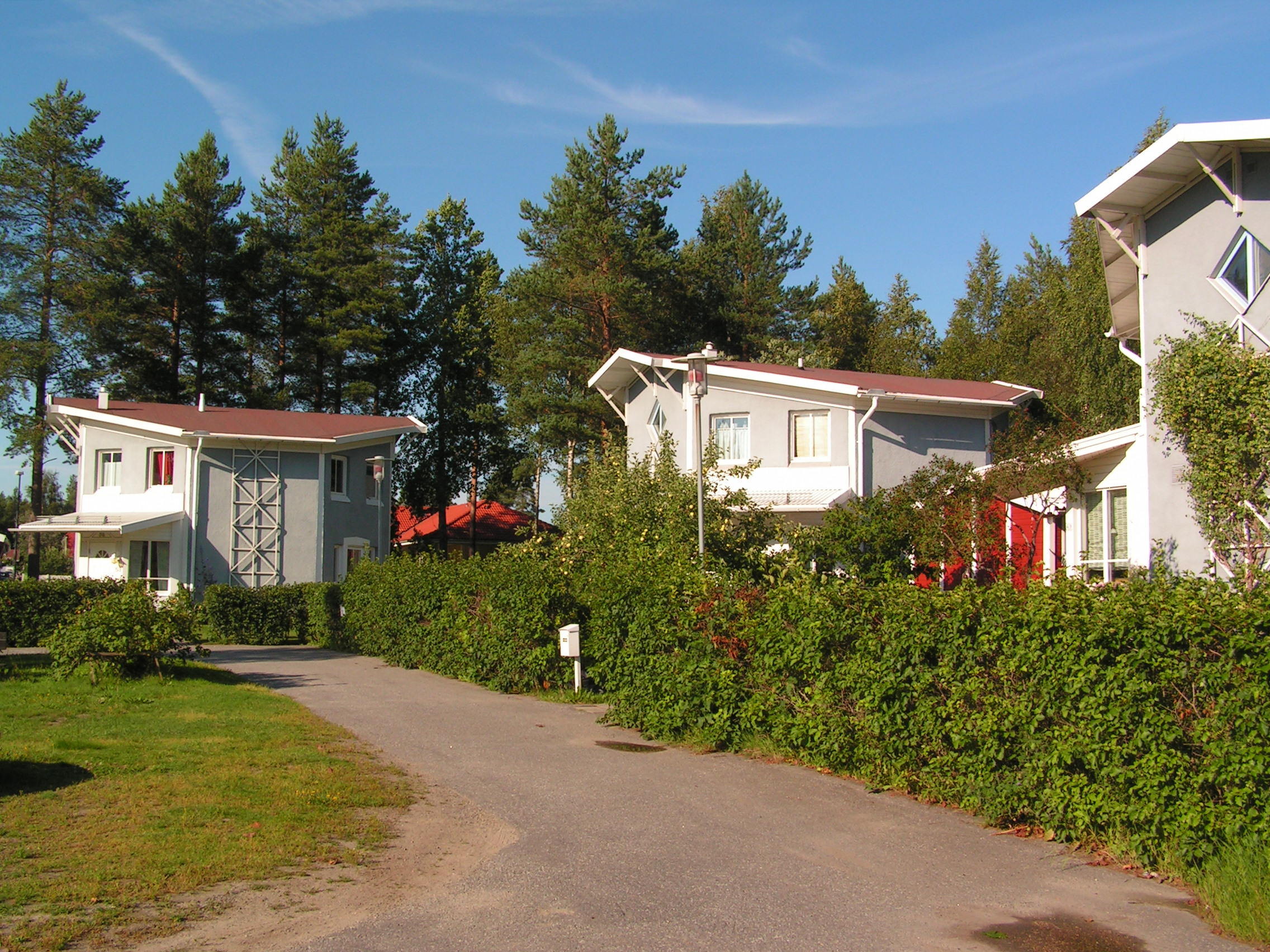 Octagon houses in Ersmark, Umeå, Sweden